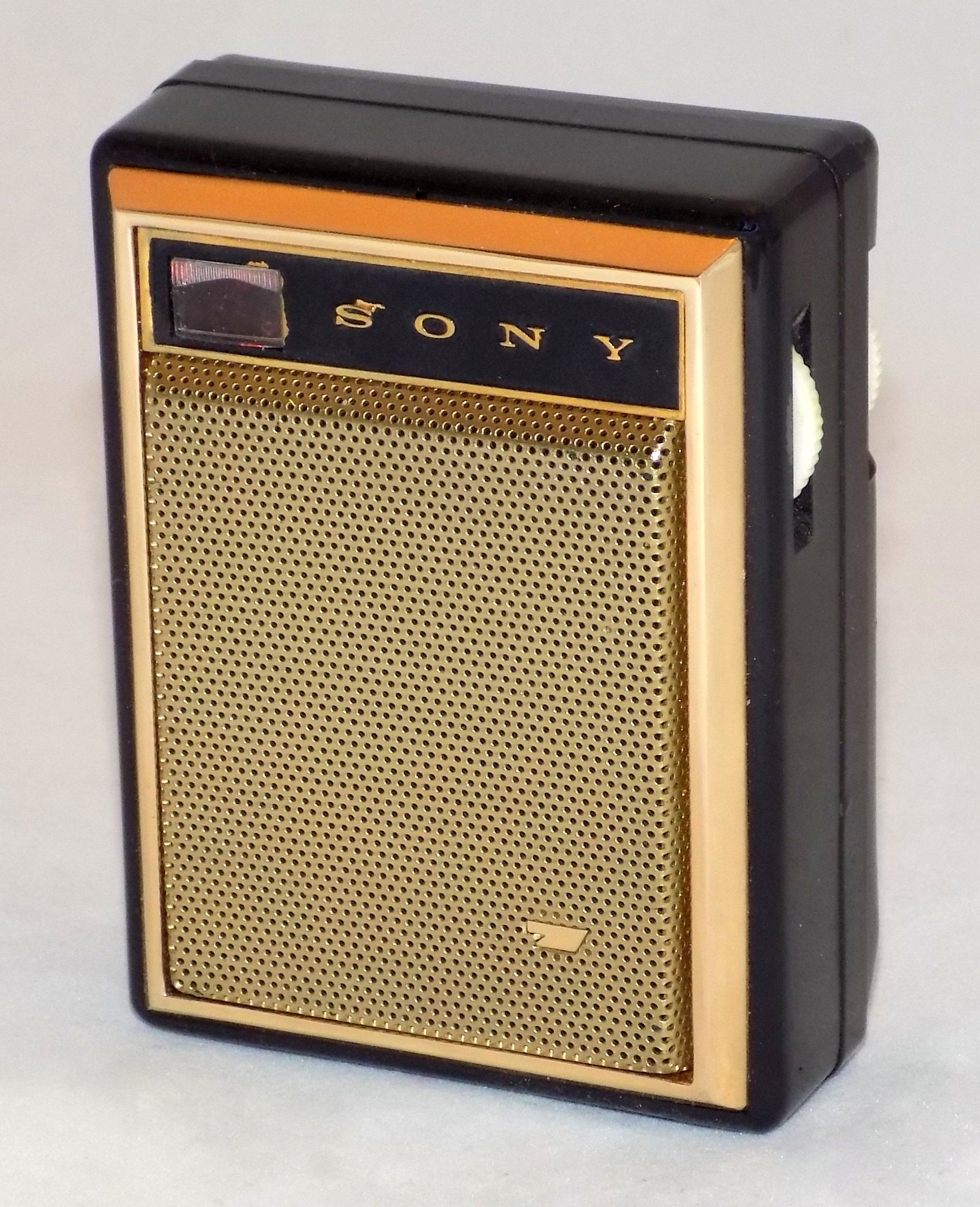 Vintage Sony Model TR-730 Transistor Radio, Broadcast Band Only (MW), 7 Transistors, Made In Japan, Circa 1960